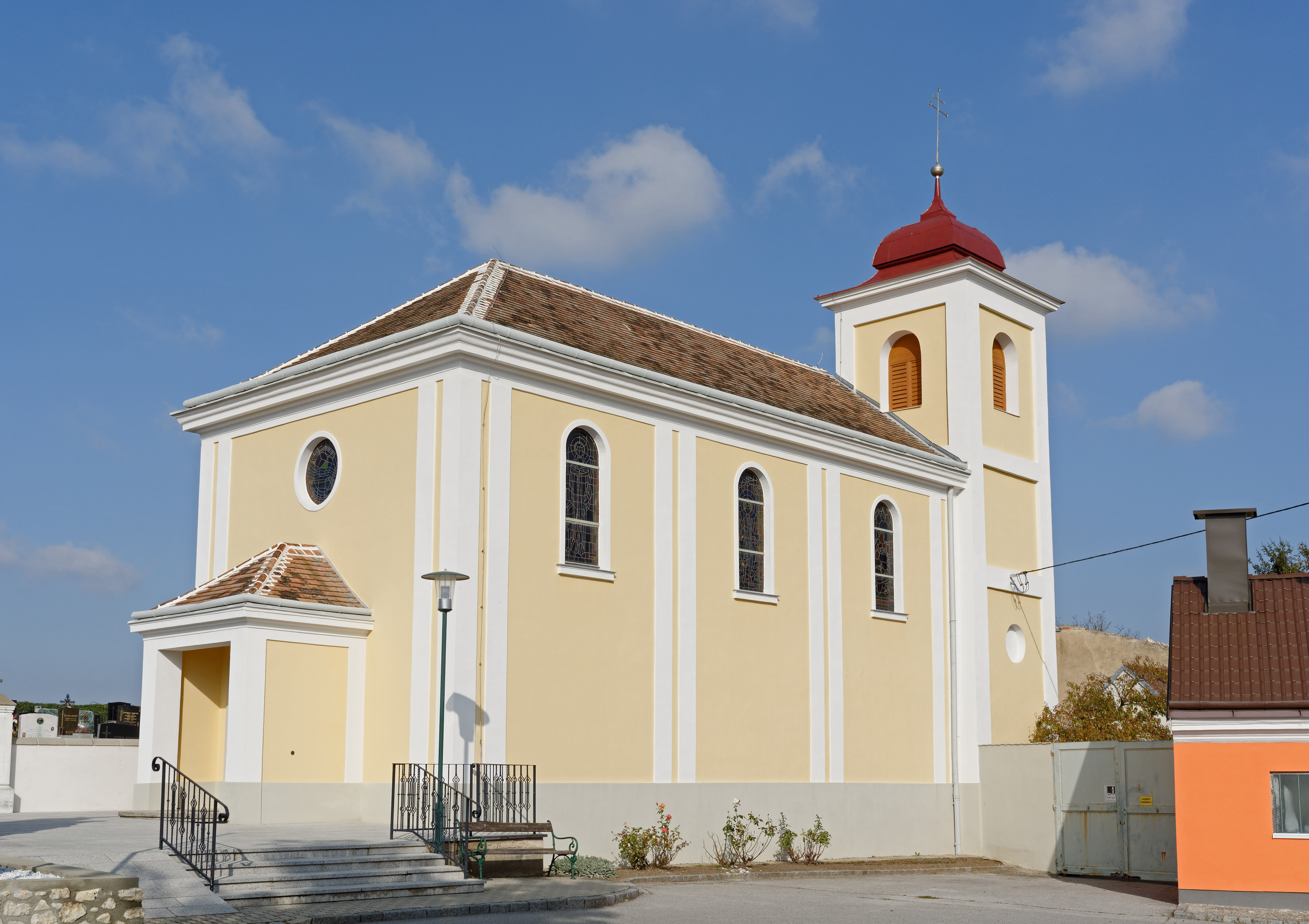 Catholic succursal church in Steinebrunn, Municipality Drasenhofen, Lower Austria, Austria